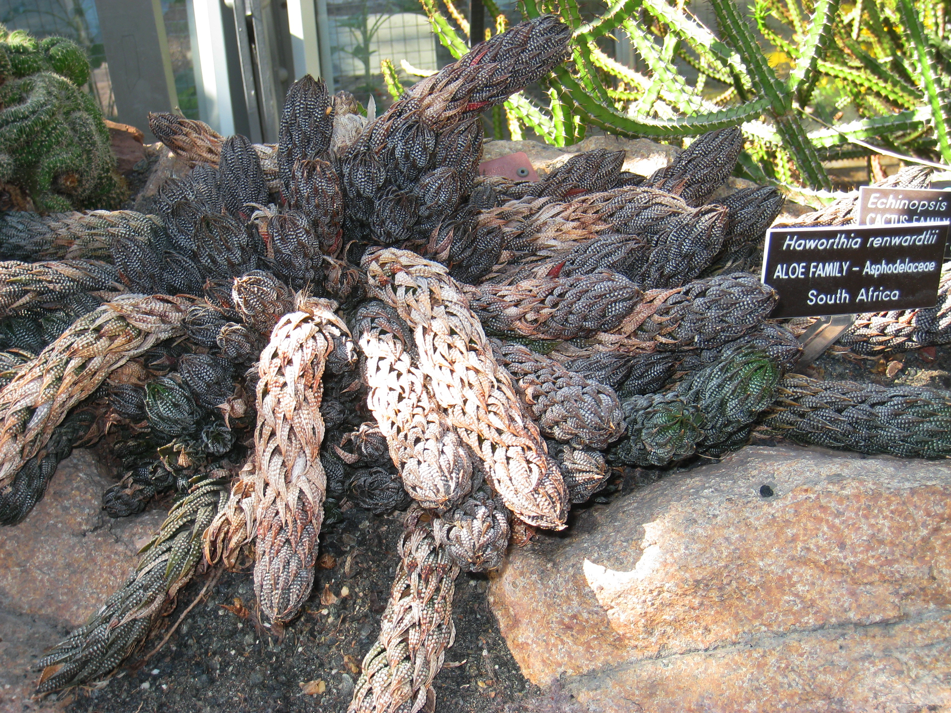 Haworthia renwardtii, in the United States Botanic Garden, Washington, DC, USA.